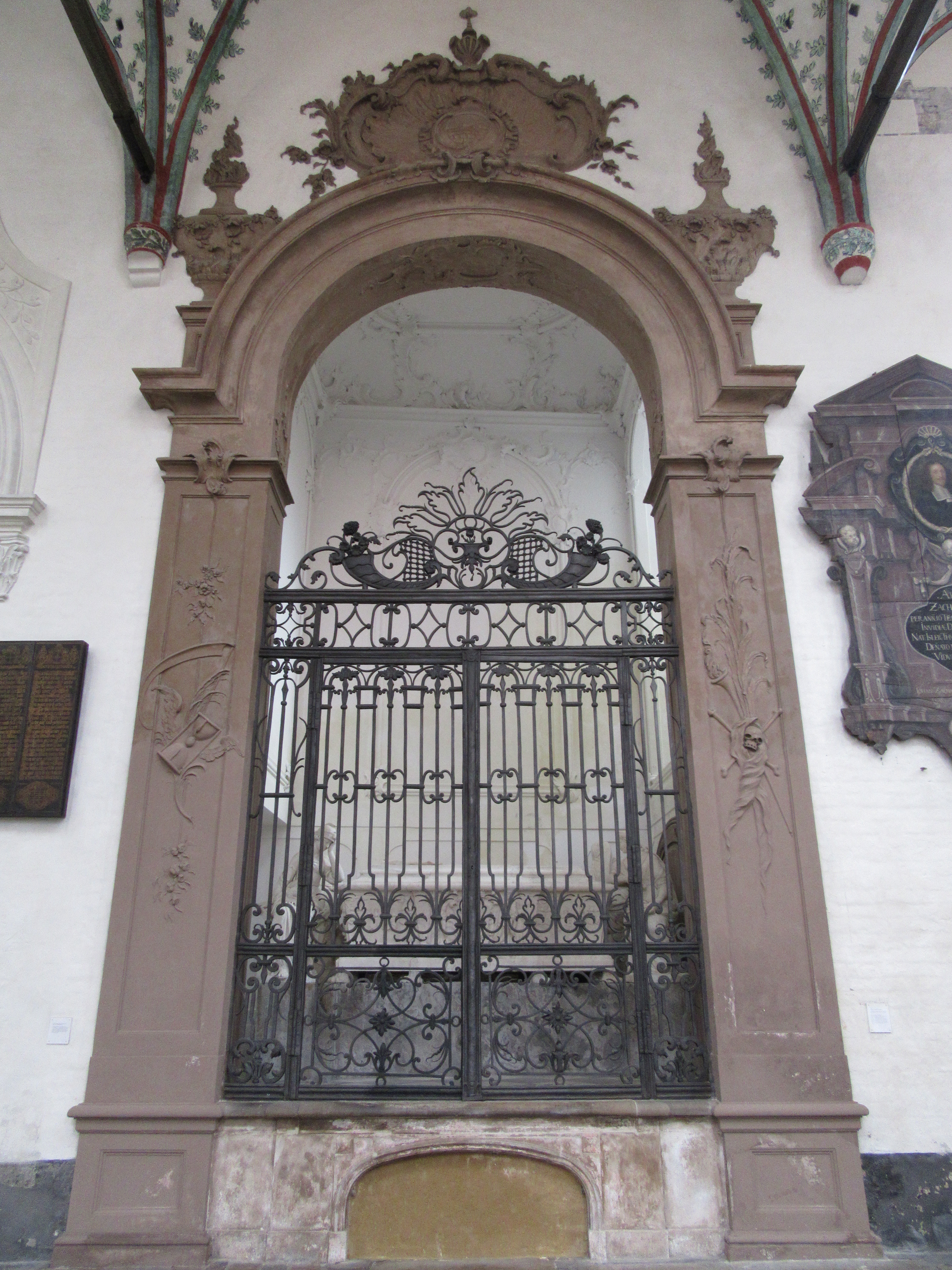 Reventlow chapel in St. Katharinen, Lübeck, burial place of Klaus Reventlow (1693-1759) and his wife Charlotte Dorothea nee von Plessen (+ 1789). The marble sarcophagus is the work of Simon Carl Stanley